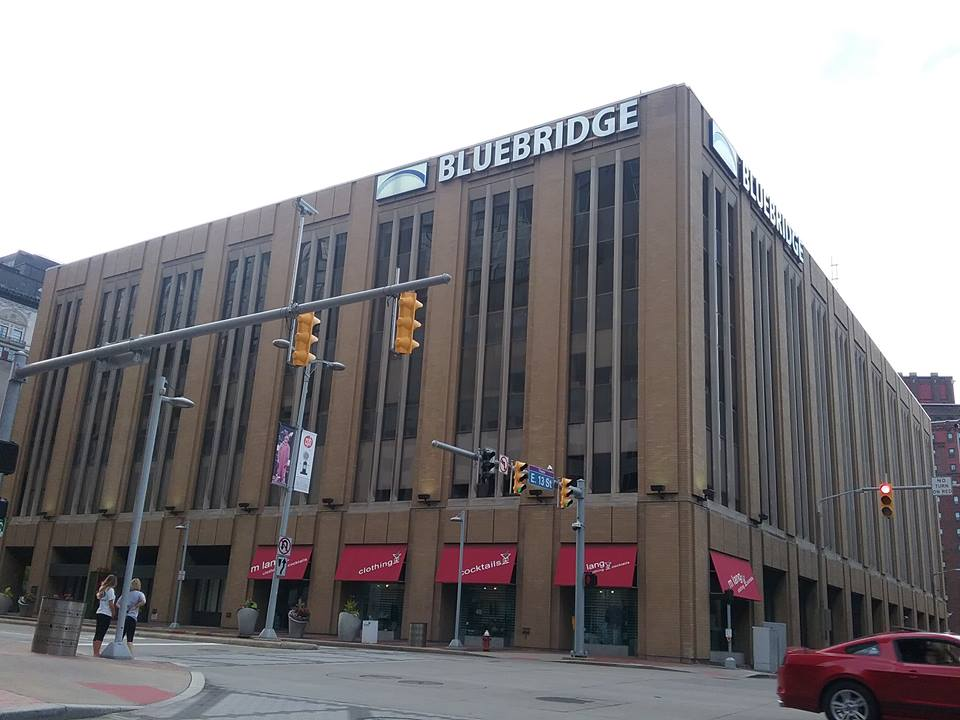 Sterling Lindner Davis Building